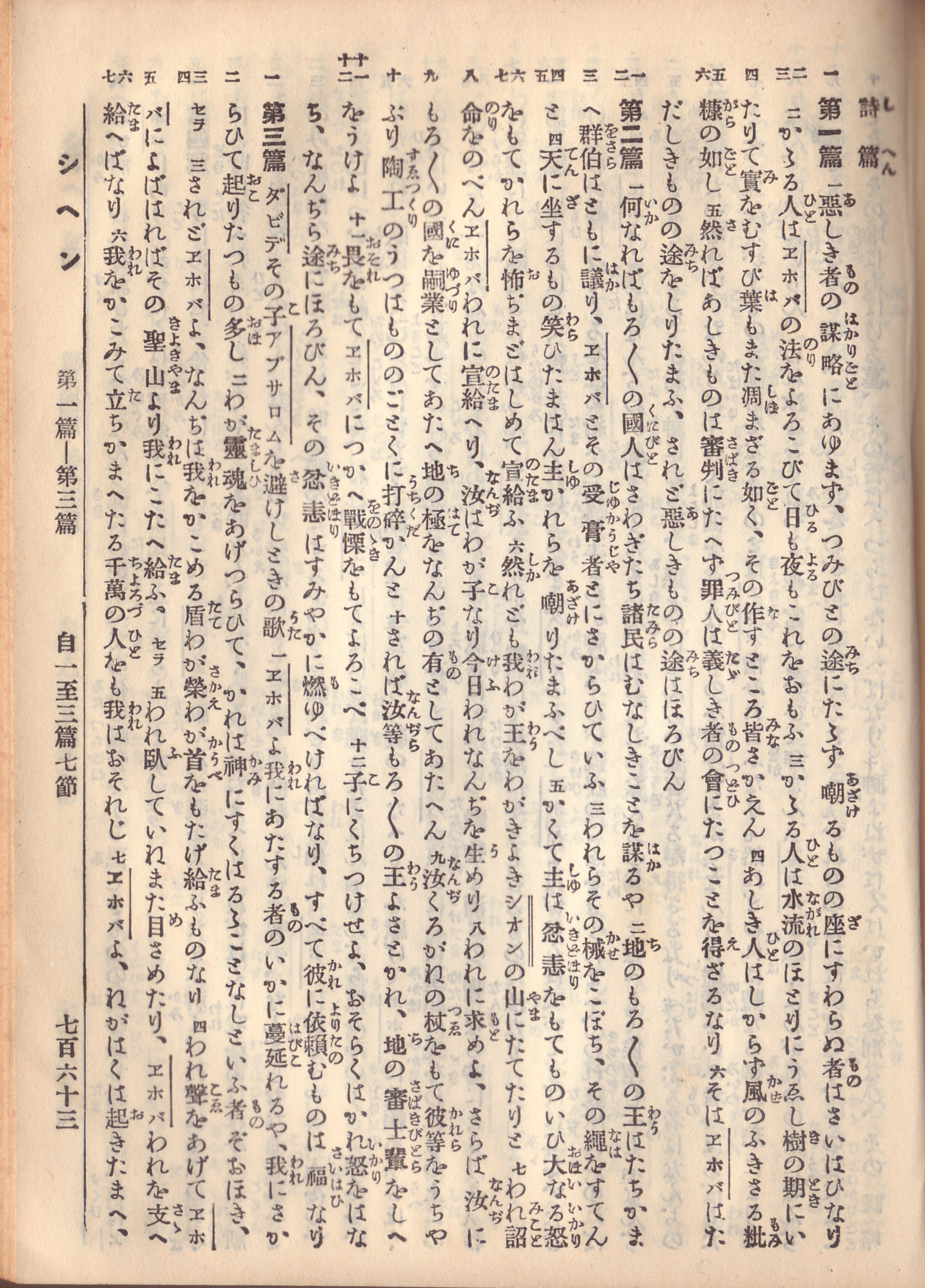 The Old Testament - Japanese Version (Meiji-yaku), American Bible Society Japan Agency, 1914 (reimpression, 1936). The first page of the Psalms